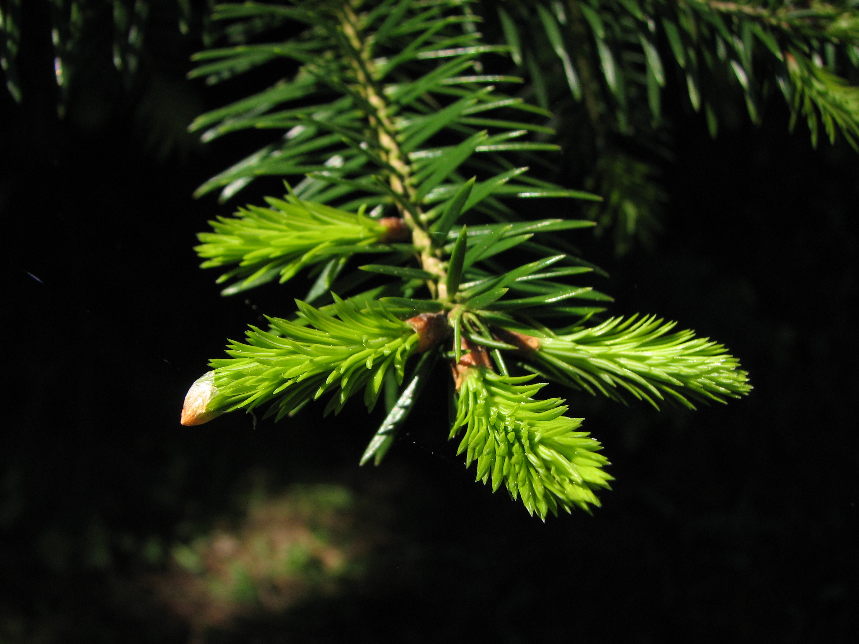 Abies borisii-regis, Bulgarian fir.